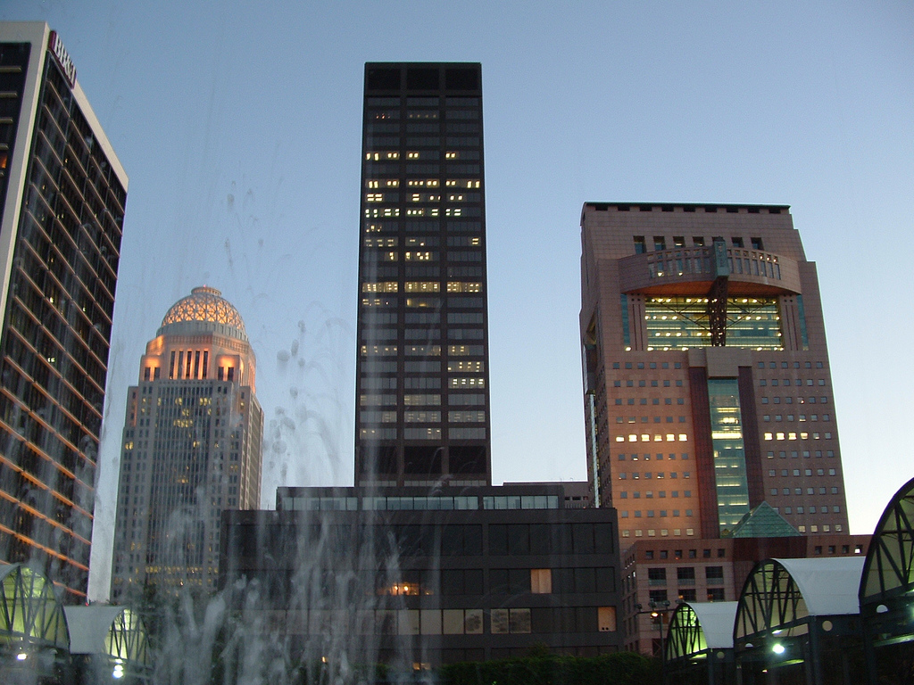 View of Downtown Louisville buildings from the Belvedere at dusk, by user mushashugyo at Flickr [1], using a compatible Creative Commons license. I reduced and cropped the image, and I release my changes using the same license.